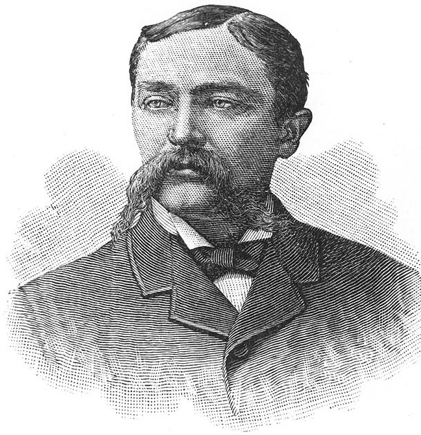 Portrait of United States seaman and arctic explorer William F. C. Nindemann